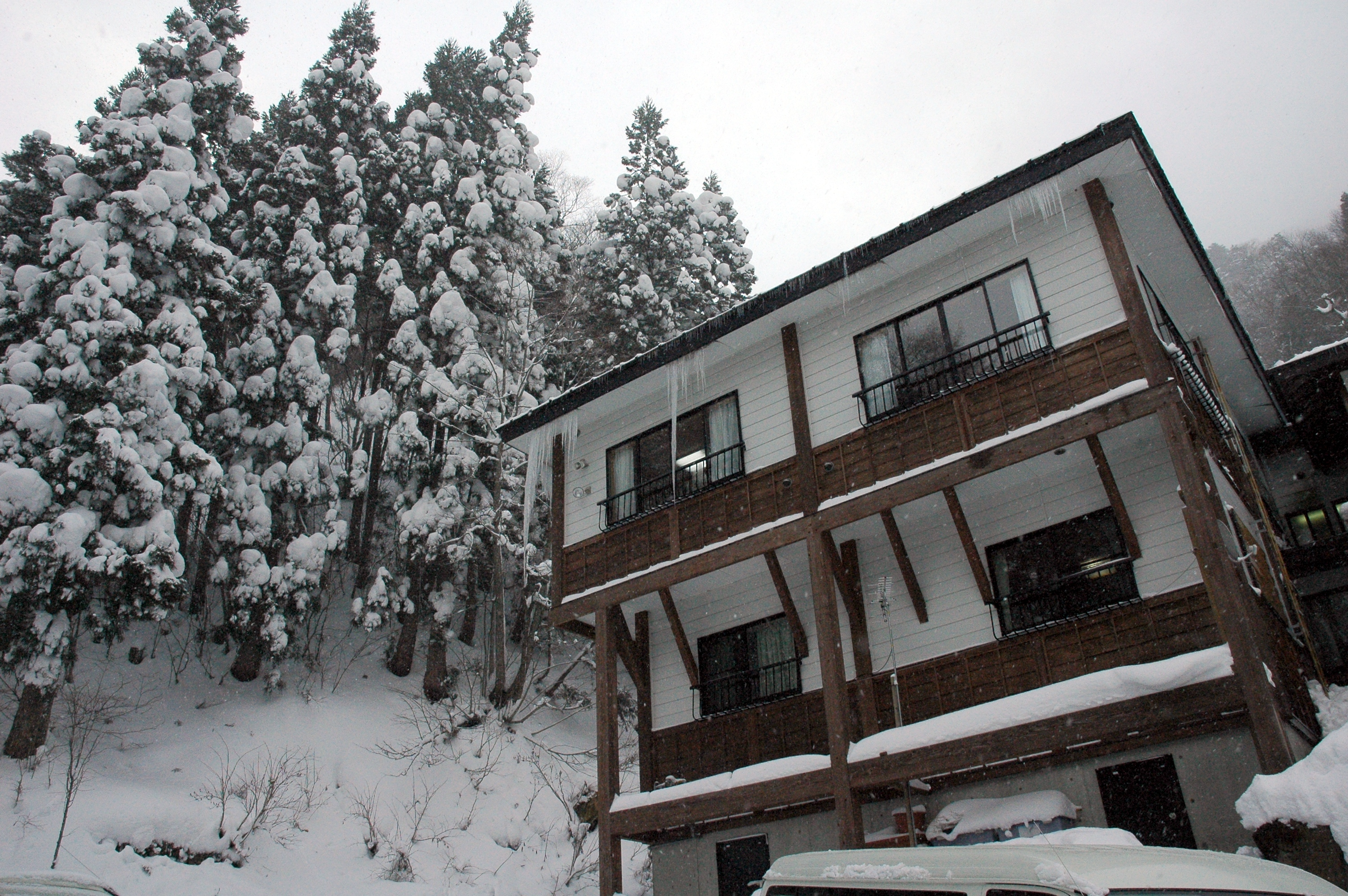 Azumaya Ryokan, Yonezawa.